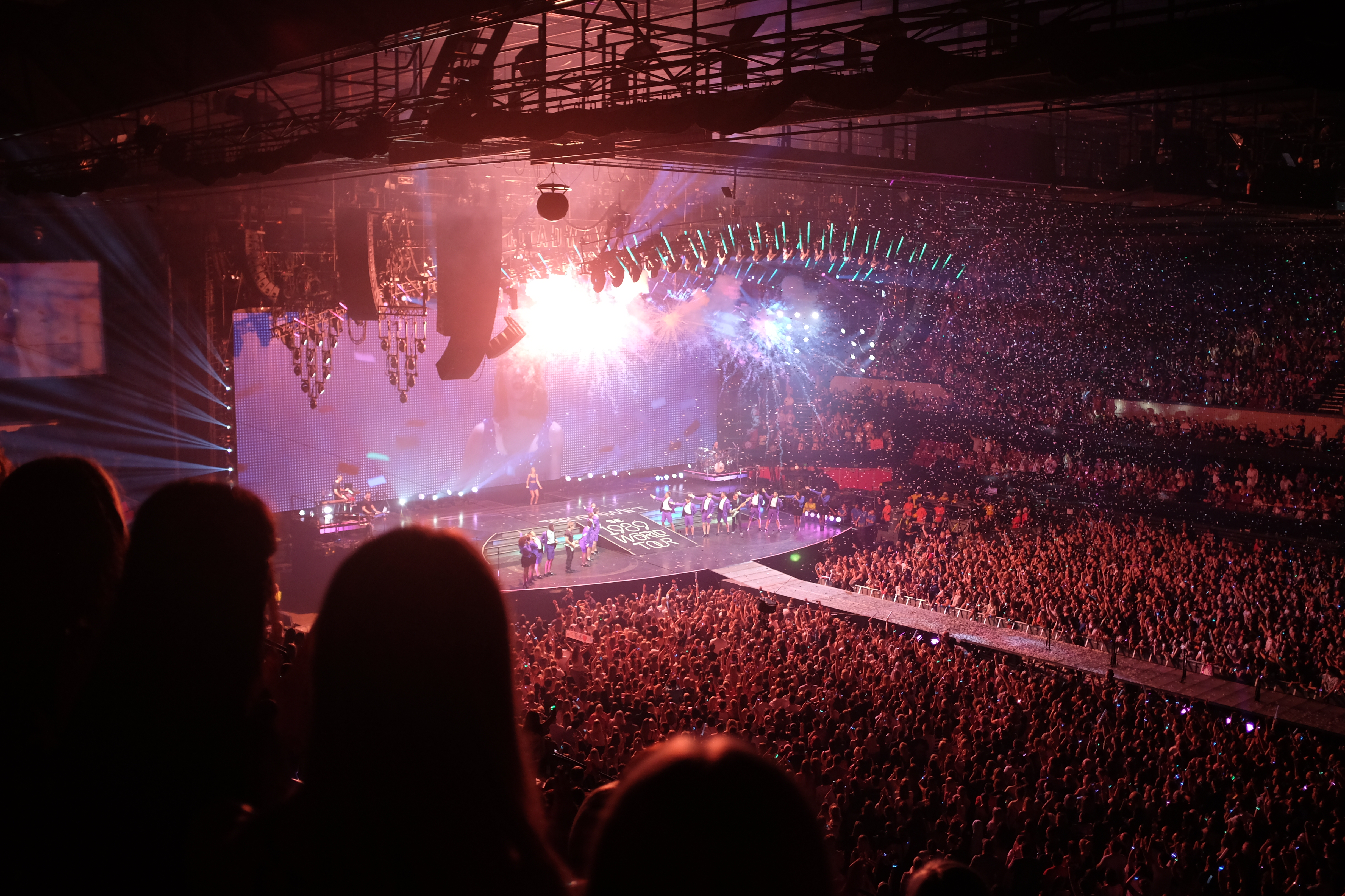 Adelaide Entertainment Centre, Hindmarsh, Australia